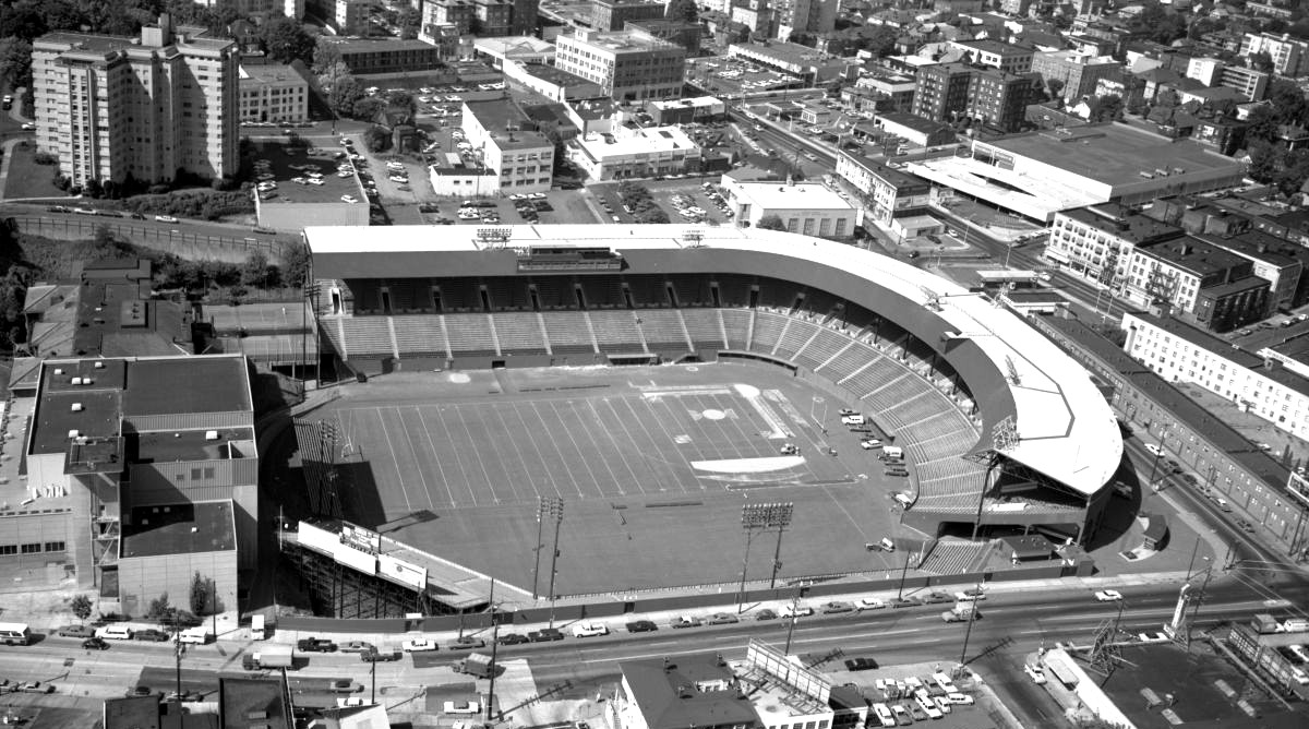 Civic Stadium, now Providence Park